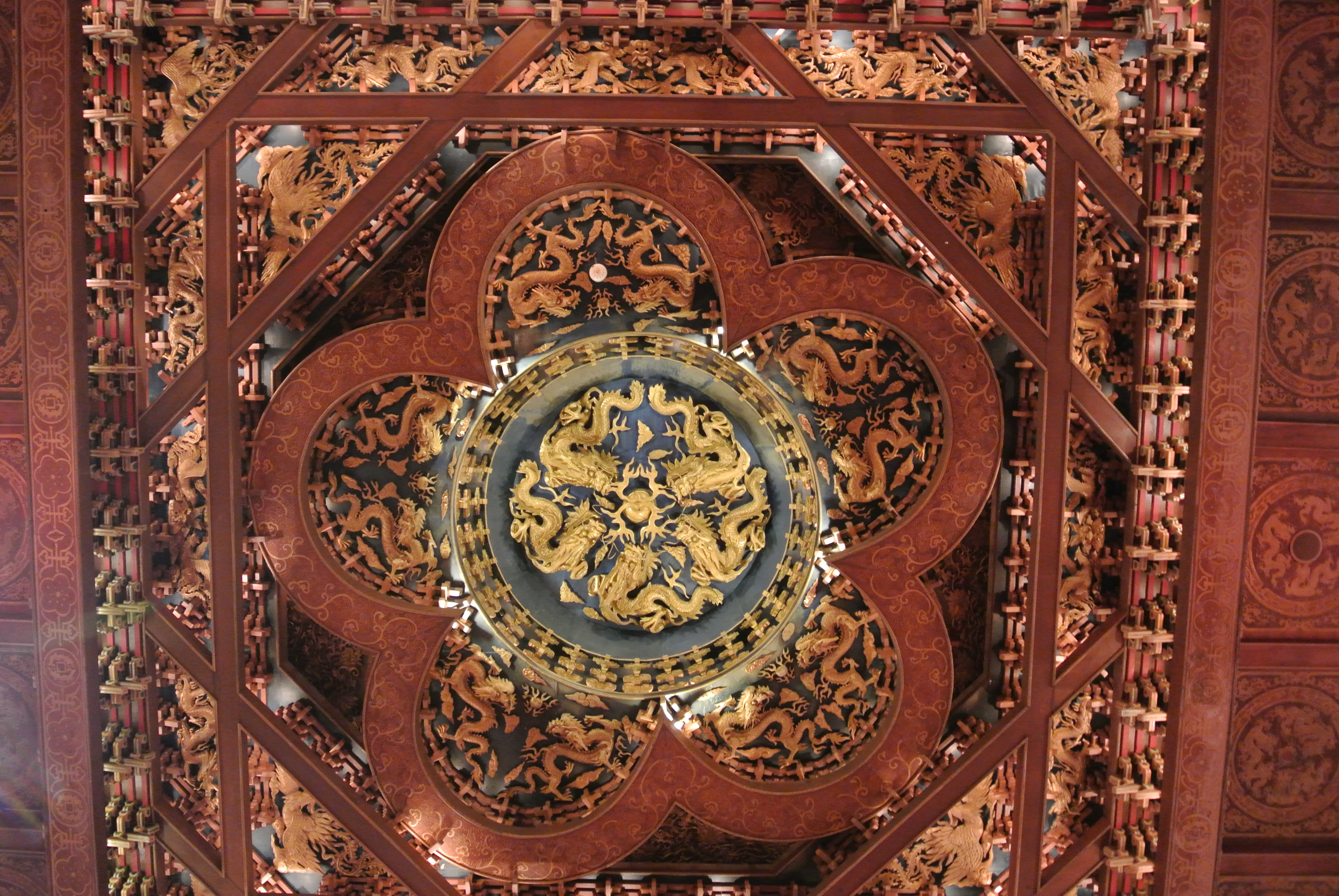 Interior of Grand Hotel Taipei